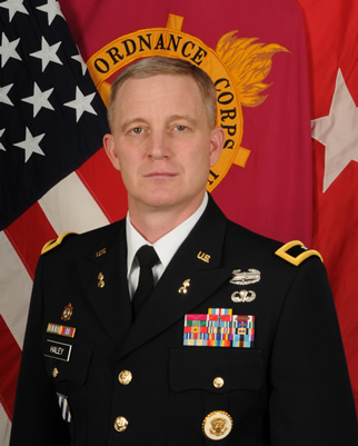 Brig. Gen. John F. Haley